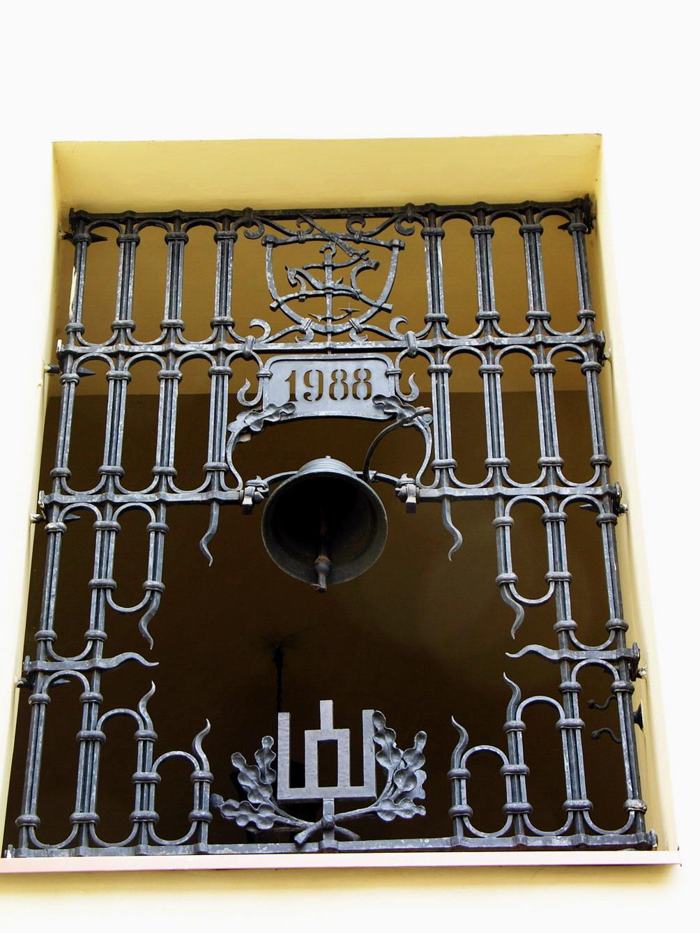 Commeorative bell of Vilnius University